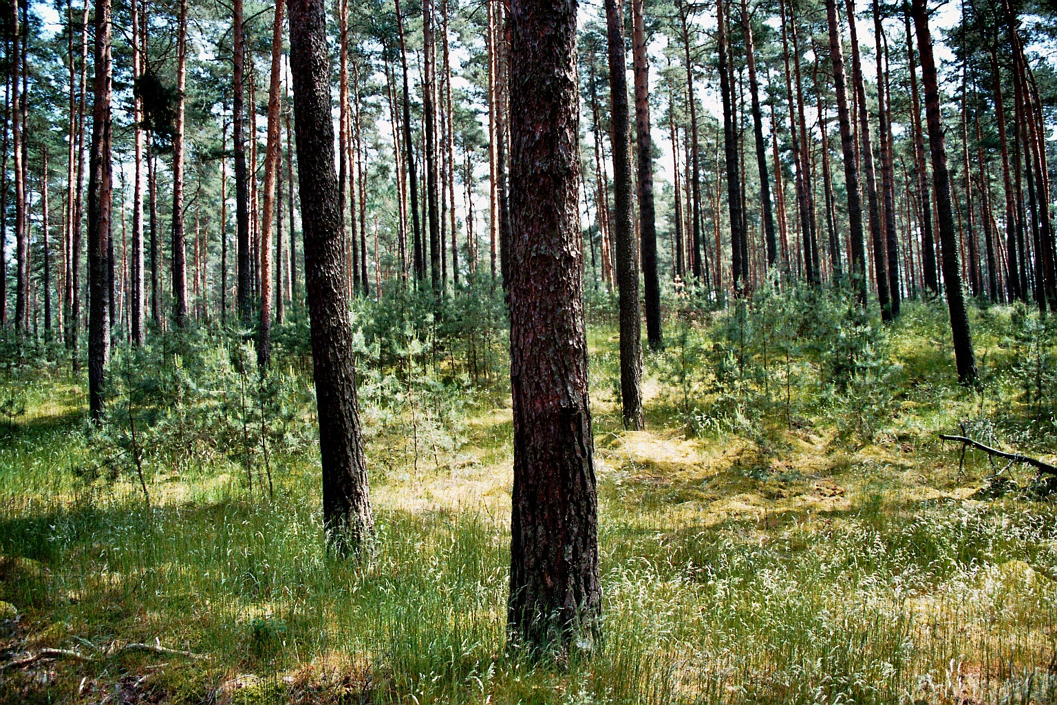 Scots Pine (Pinus sylvestris) forest in the Lieberoser Heide in Brandenburg, Germany.